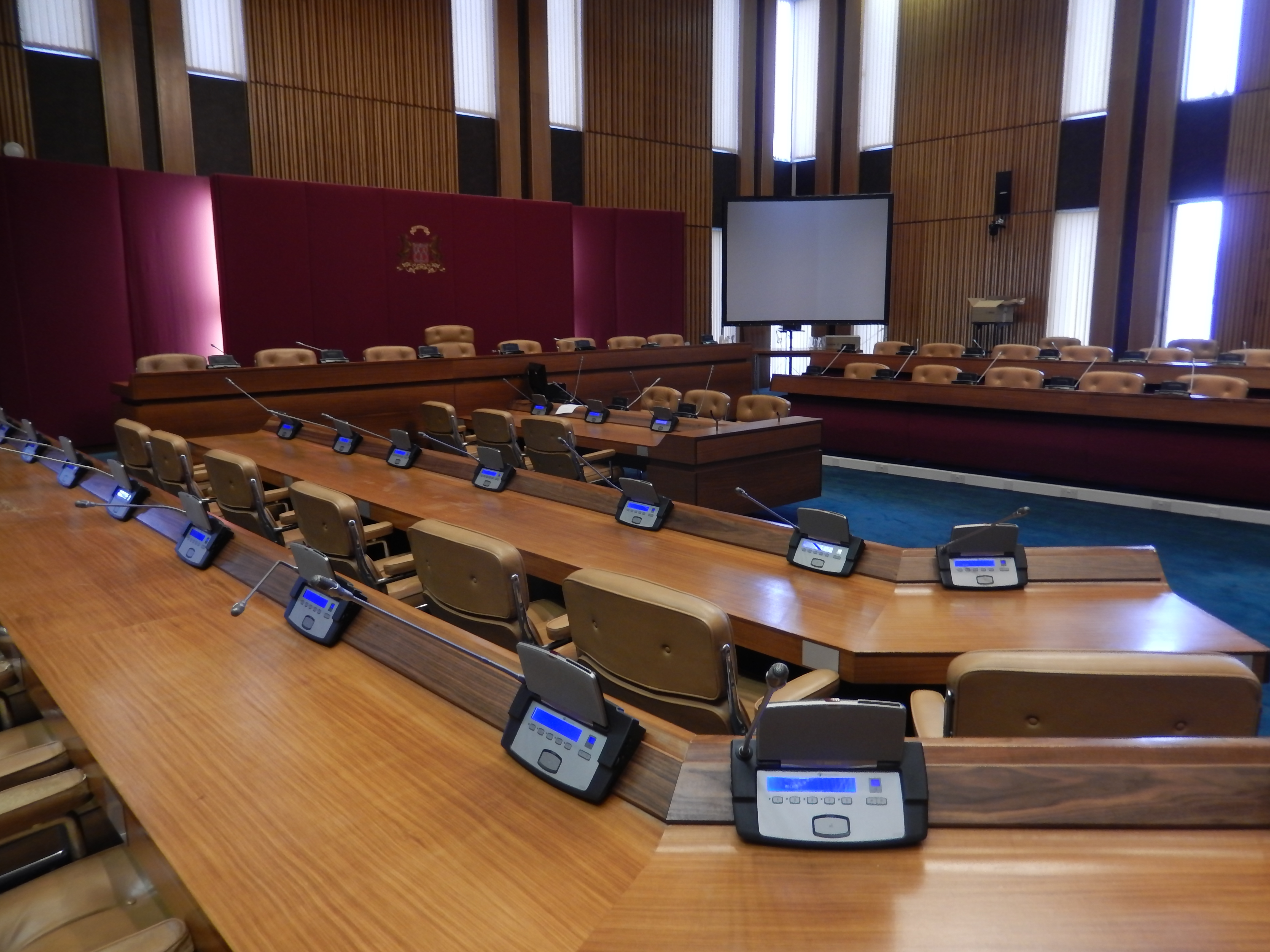 Aberdeen City Council Chamber in the Town House Extension. The Town House Extension was built in 1977. Photo taken when the chamber was open for Doors Open Day